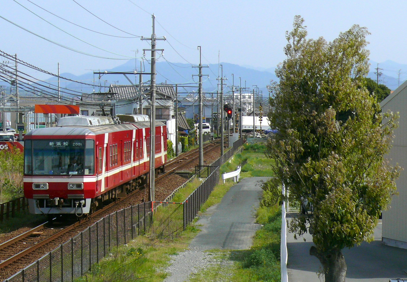 Enshu Railway Line.